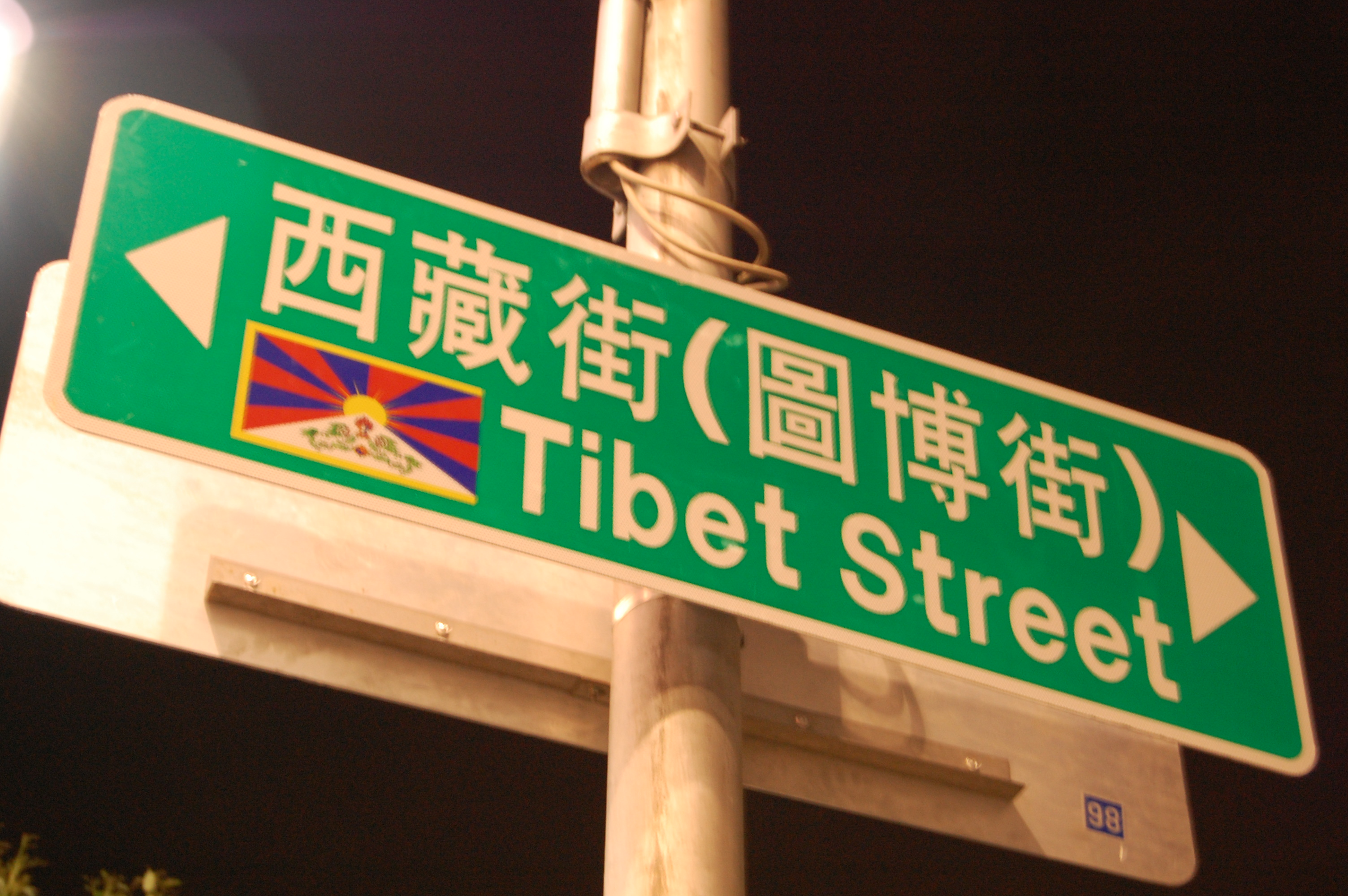 Night in the road name sign of Tibet Street, Kaohsiung City.